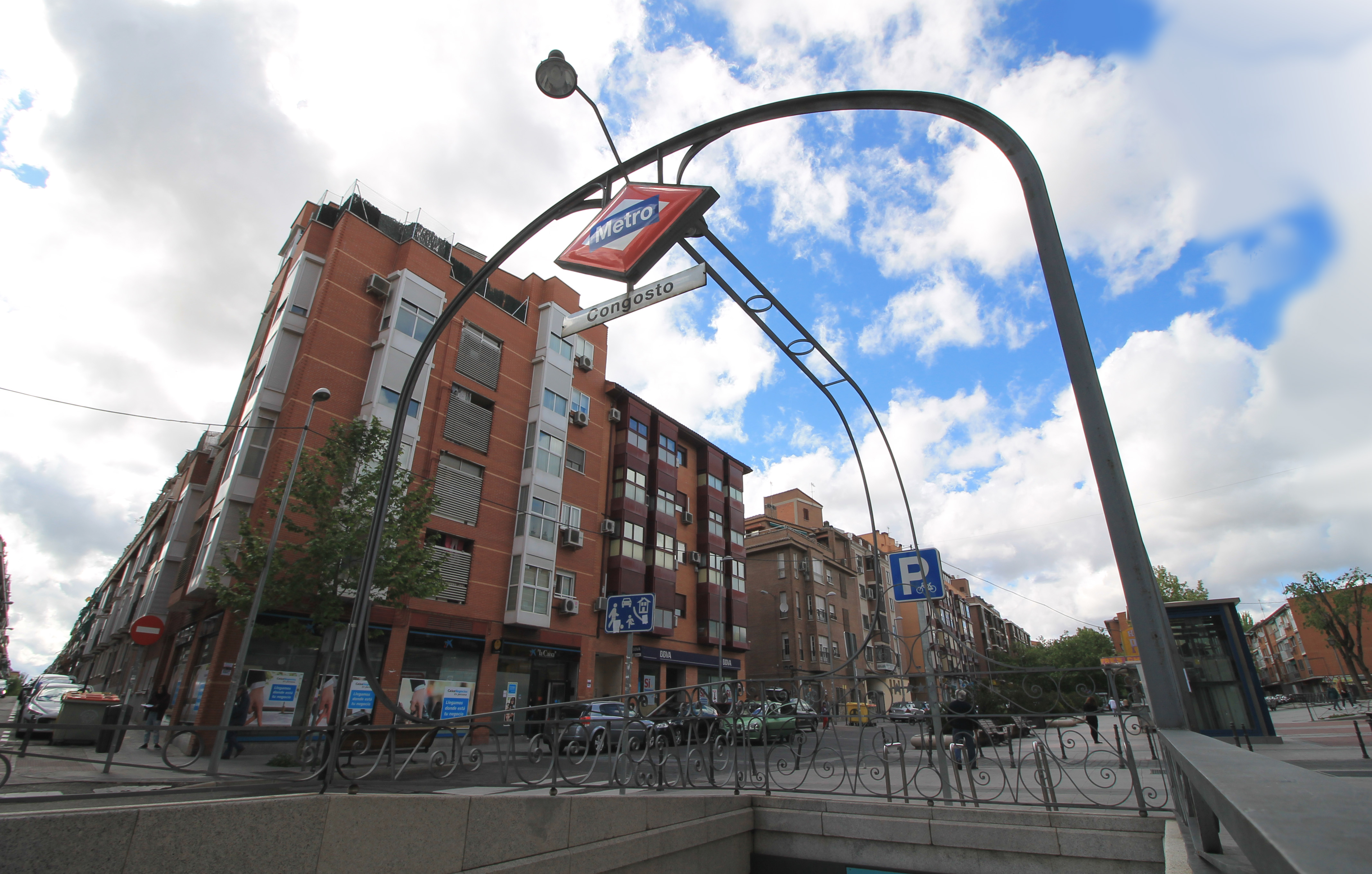 Entrance of Congosto metro station in Madrid (Spain).